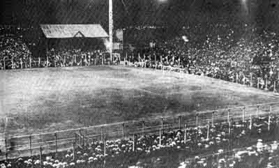 Estadio de San Lorenzo de Almagro (Boedo) Argentina